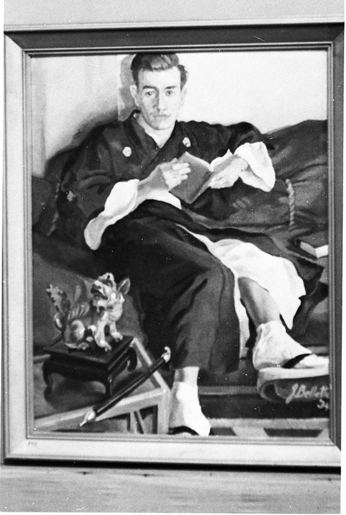 Painting of a man in a kimono by Jean Bellette, 1934